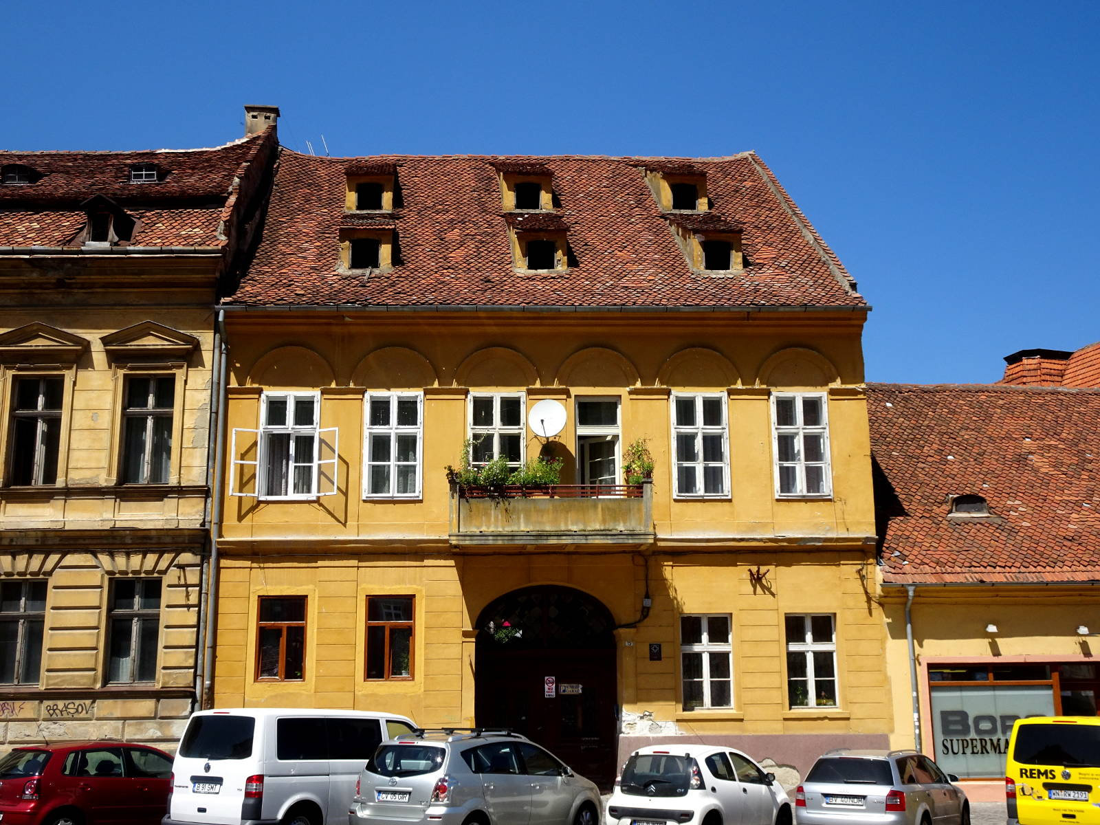 House in Bălcescu street, Brașov